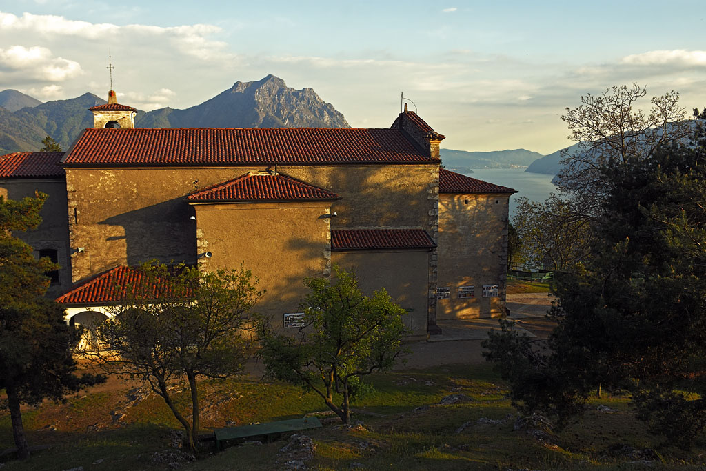 San Giovanni sanctuary, Lovere